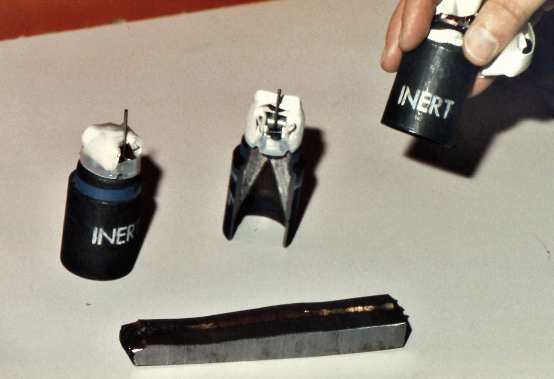 M77 submunition bomblets which is packed in the MLRS rocket. Hand used to give example of size. 664 are packed in each MLRS rocket's warhead. Has both anti-personnel fragmentation and armour penetration of approximately 4 inches. Photo take at the Association of the United States Army 1988 convention.